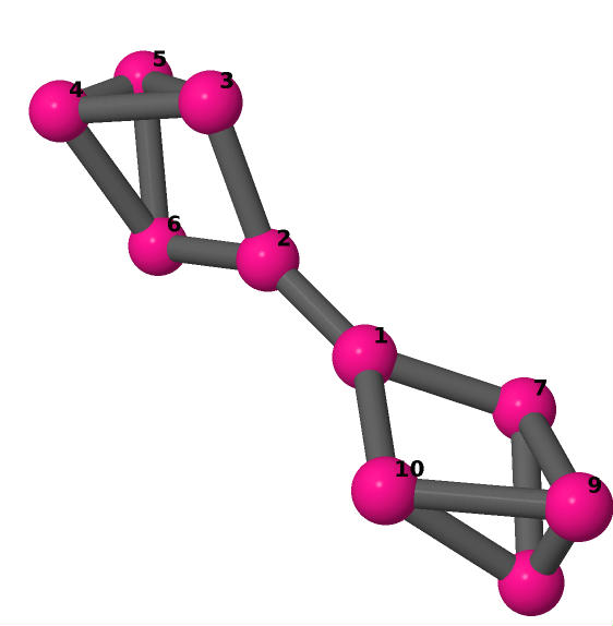 One of 19 simple cubic graphs with 10 vertices.